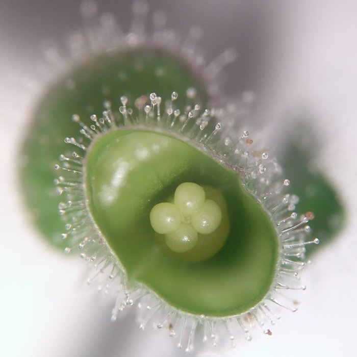 Scientific Name: Scutellaria ovata Hill var. rugosa (Wood) Fern. Common Name: Heartleaf Skullcap Certainty: positive (notes) Location: Central Appalachians; George Washington NF; Shenandoah Mt Date: 20060730 Georgeous calyx and ovary, at 10x. Beautiful example of stipitate glandular hairs! Composite from several photos focused at different levels. Classic example of the strongly 4-lobed ovary characteristic of many mints.